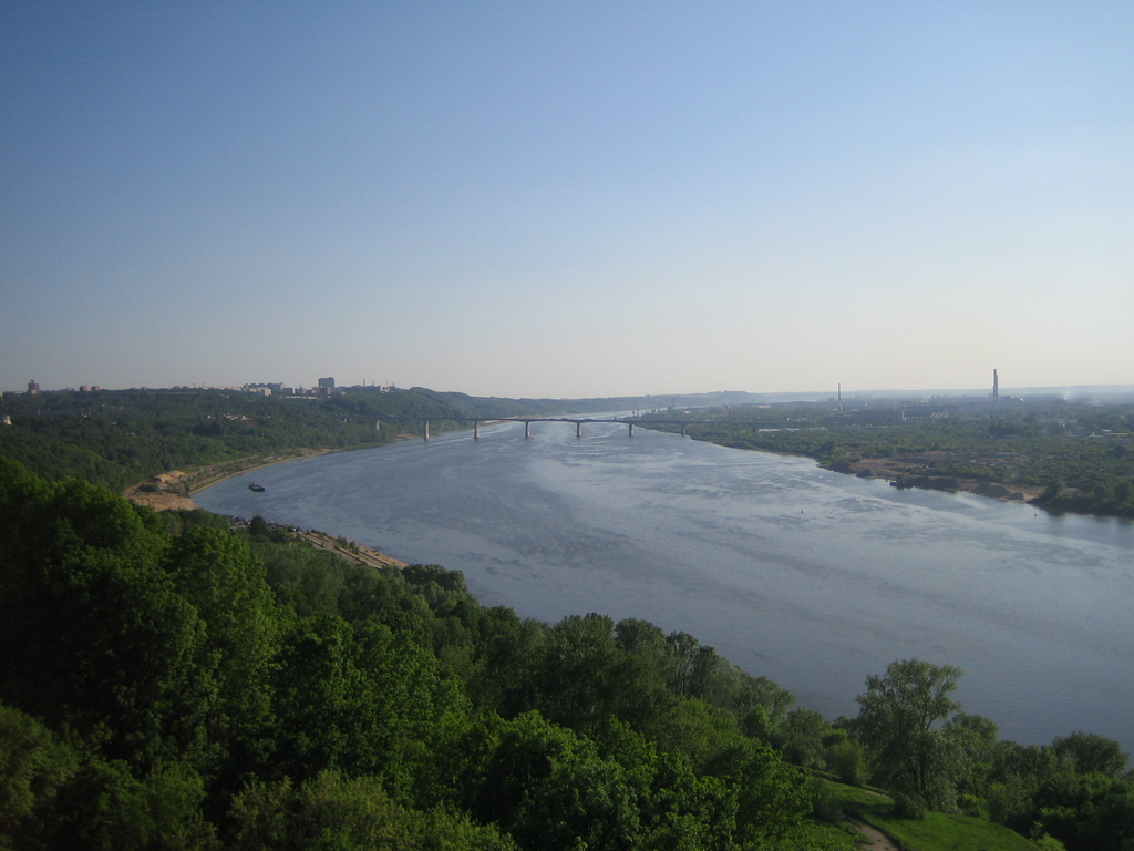 View from a Nizhny Novgorod park to the Myza bridge and Oka river